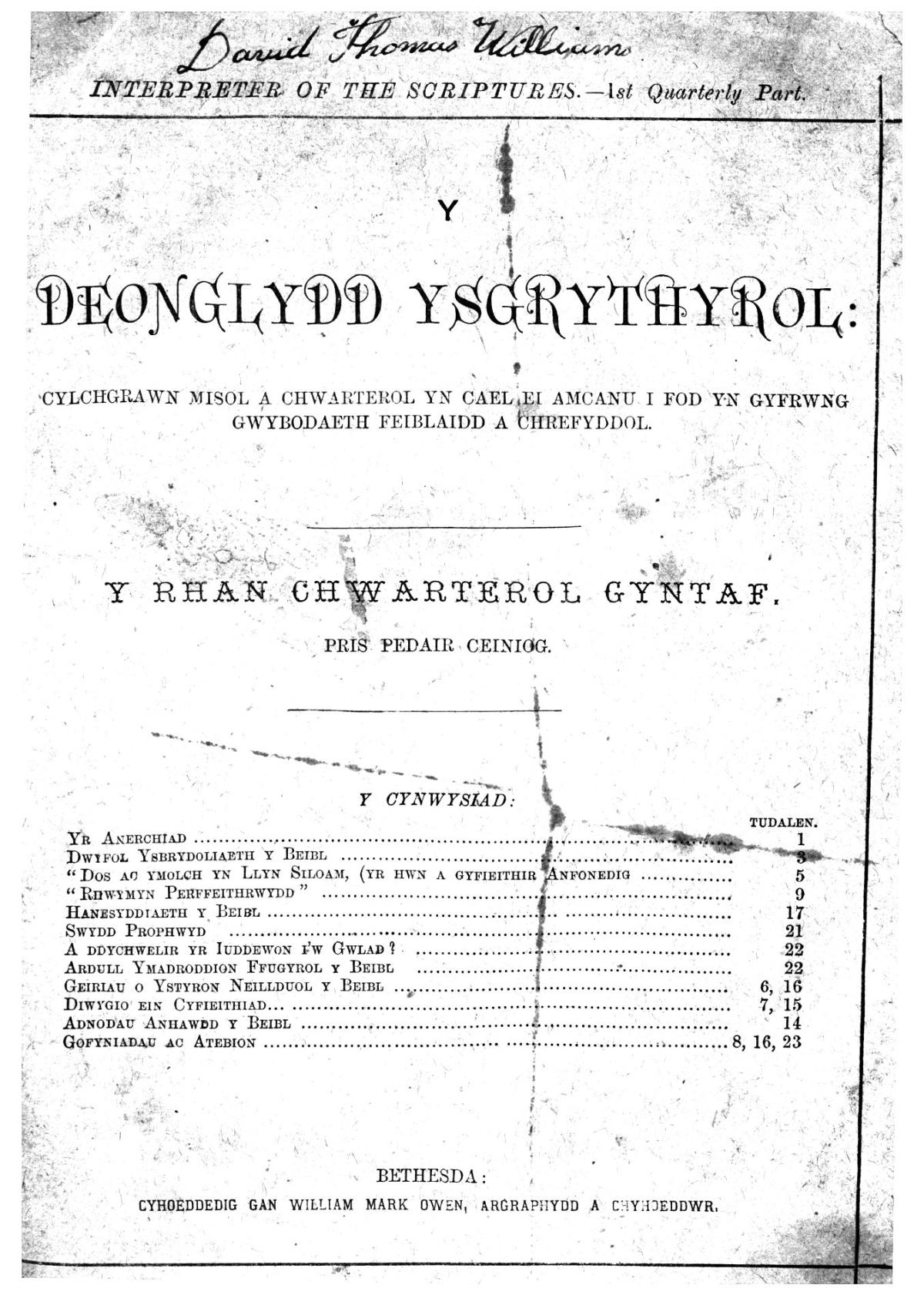 A monthly Welsh language religious periodical that mainly published religious articles. Originally a monthly periodical it was published irregularly in 1877.